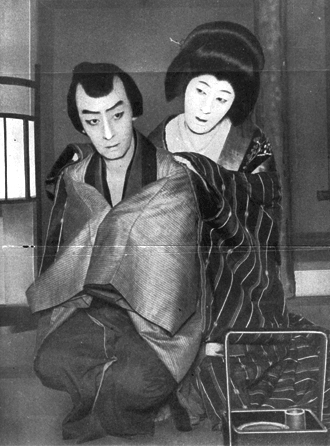 Uzaemon Ichimura XV (left, 1874–1945) as Naojirō and Baikō Onoe VI (1870–1934) as Michitose in Yuki no Yūbe Iriya no Aemichi (Michitose to Naozamurai)